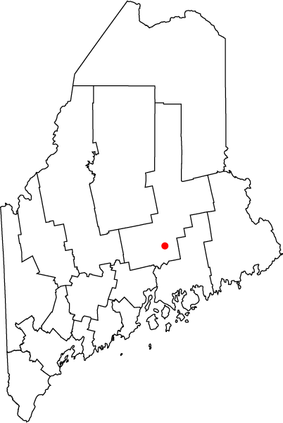 Map of the state of Maine with County Outlines, highlighting Orono.